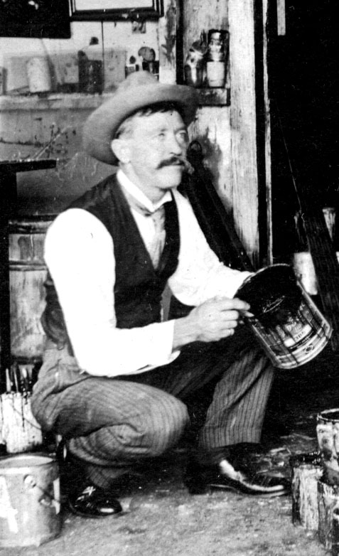 William Russell Sweet preparing paint mixtures in art studio in Peacedale, RI.